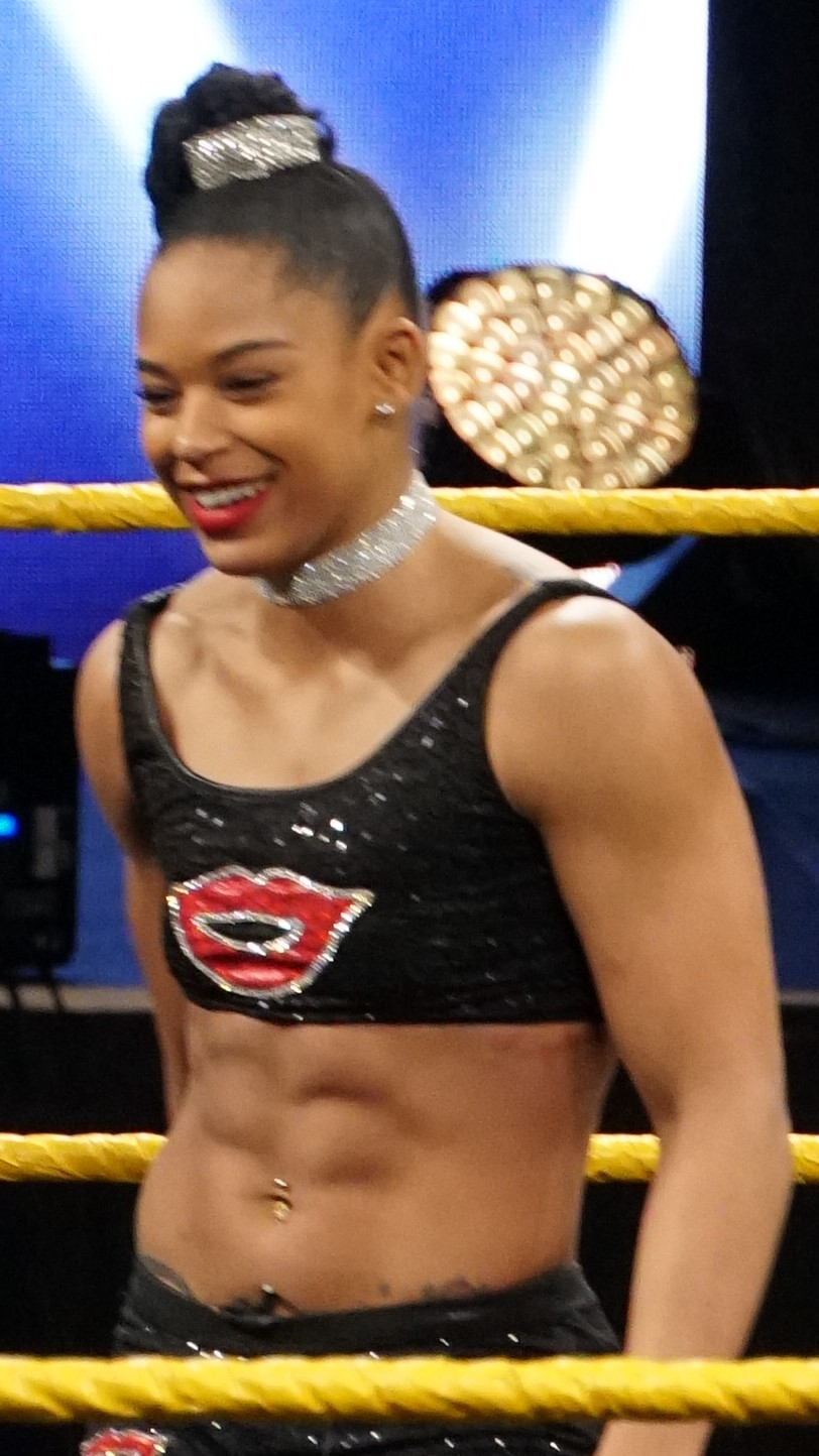 Bianca Belair in the ring at WWE Axxess, April 2018